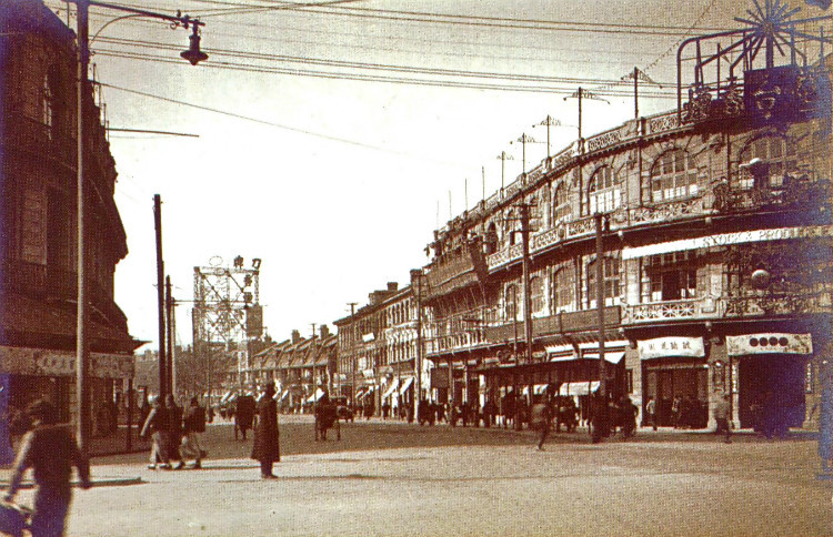 Shanghai New World in 1918 中文（中国大陆）: 1918年的上海新世界，那时叫“新世界游乐场”。